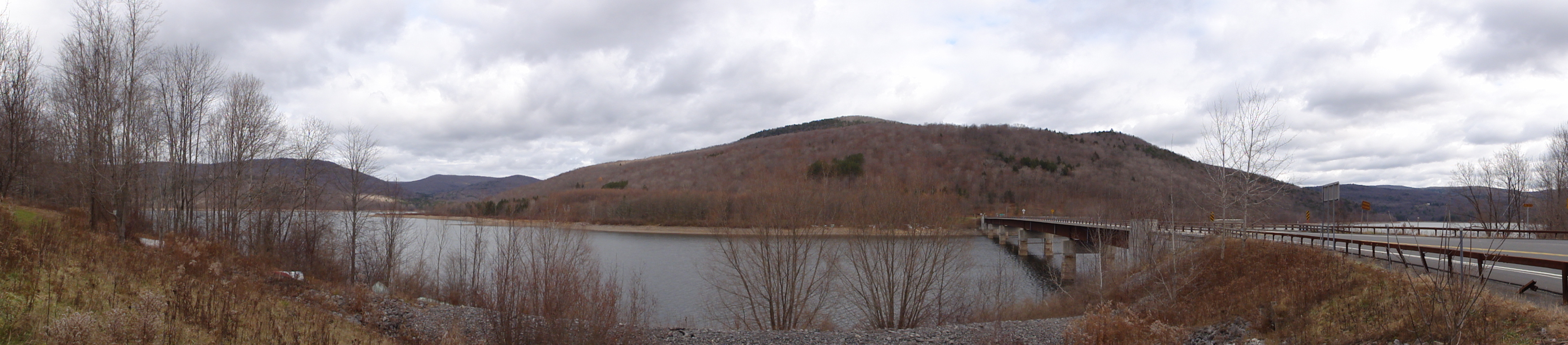 Perch Lake Mountain and Pepacton Reservoir, New York State Route 30 crosses the reservoir to the right.